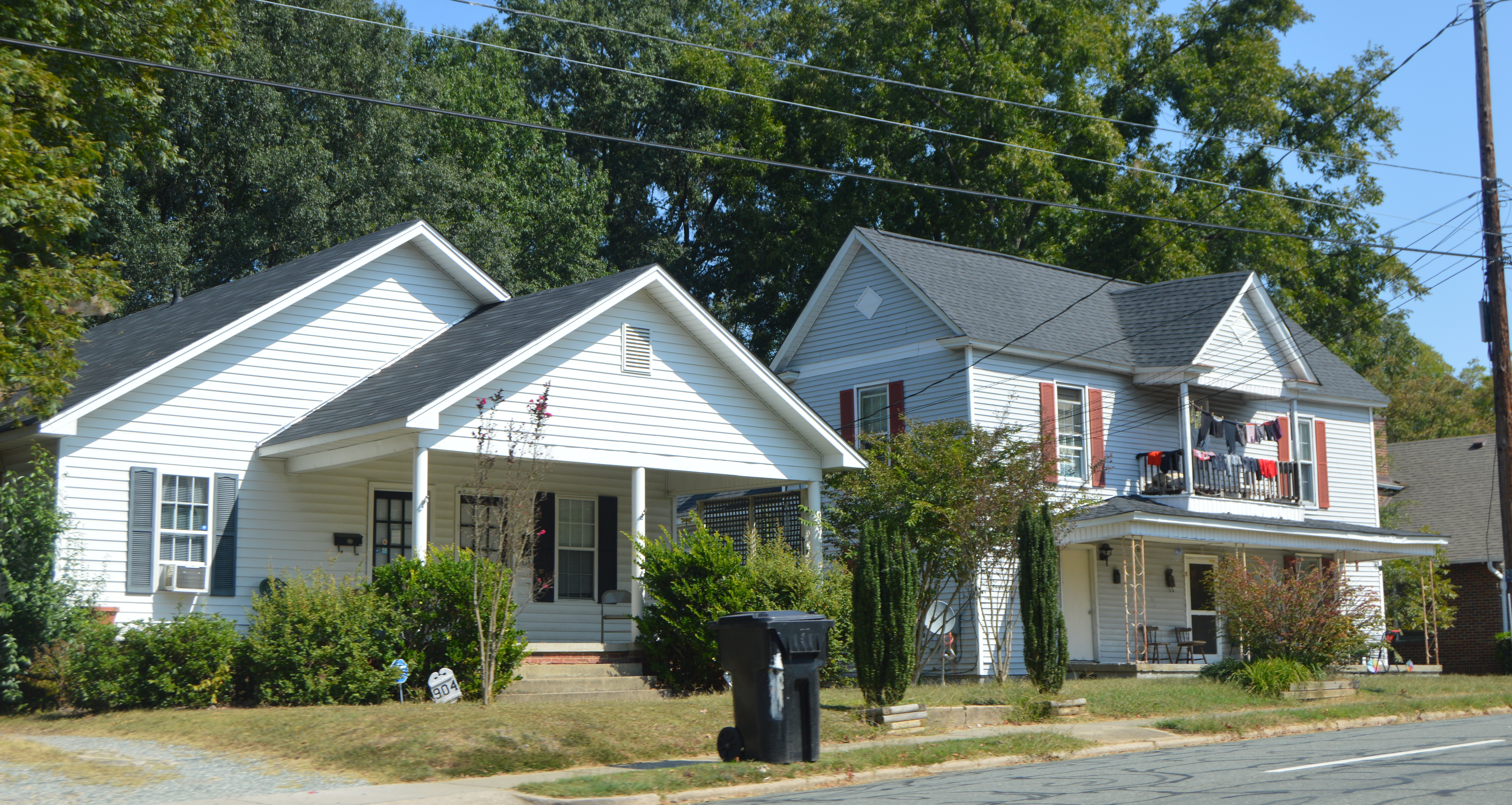 Houses on Main Street east of the James Street intersection in Burlington, North Carolina, United States. This block is part of the Beverly Hills Historic District, a historic district that is listed on the National Register of Historic Places.